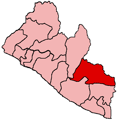 Map of Liberia showing Grand Gedeh County; created with the GIMP. Made by User:Acntx.